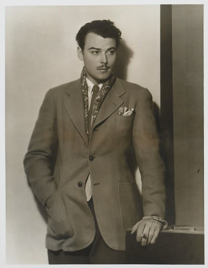 MGM publicity still of actor Nils Asther in 1930s.